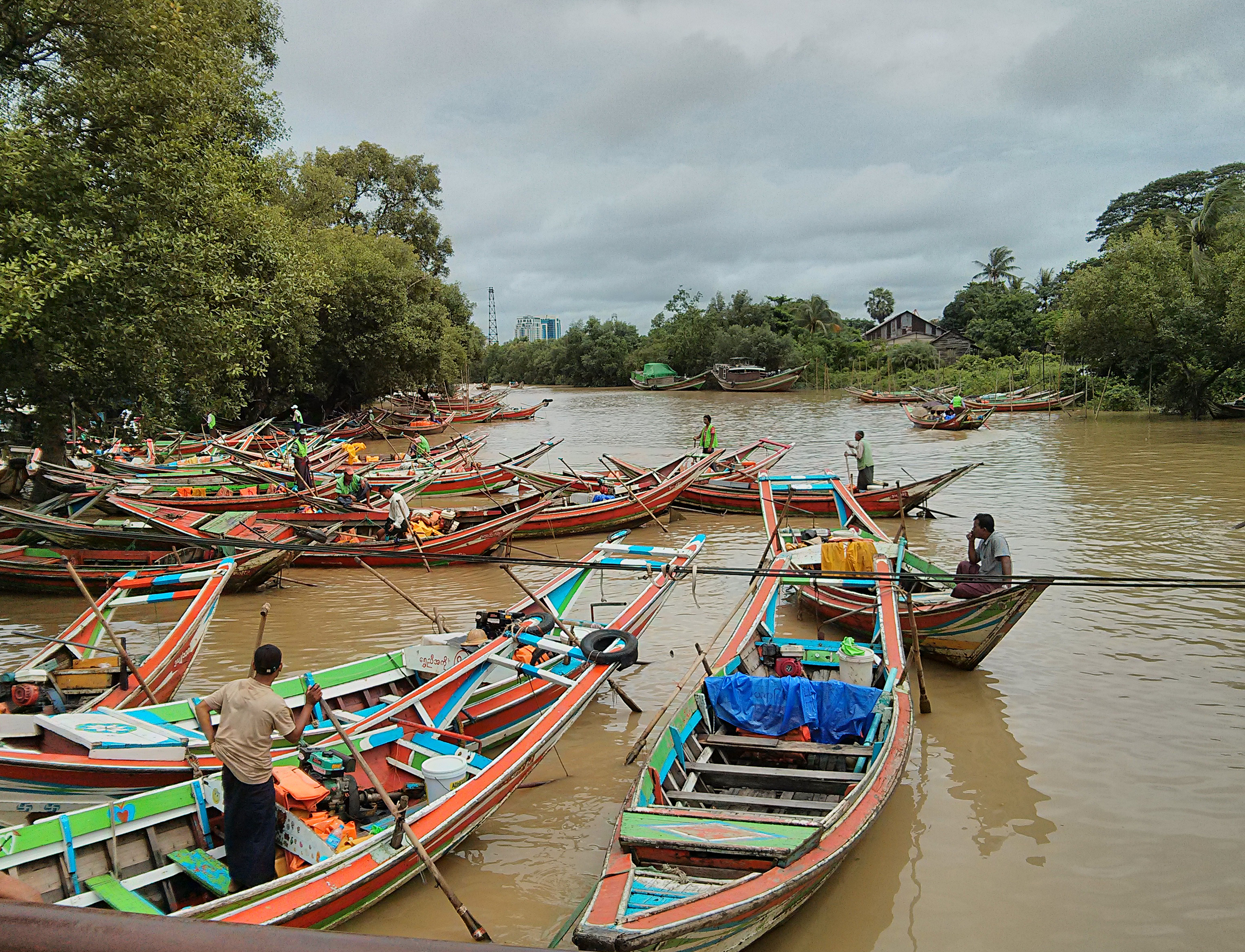 Description see title